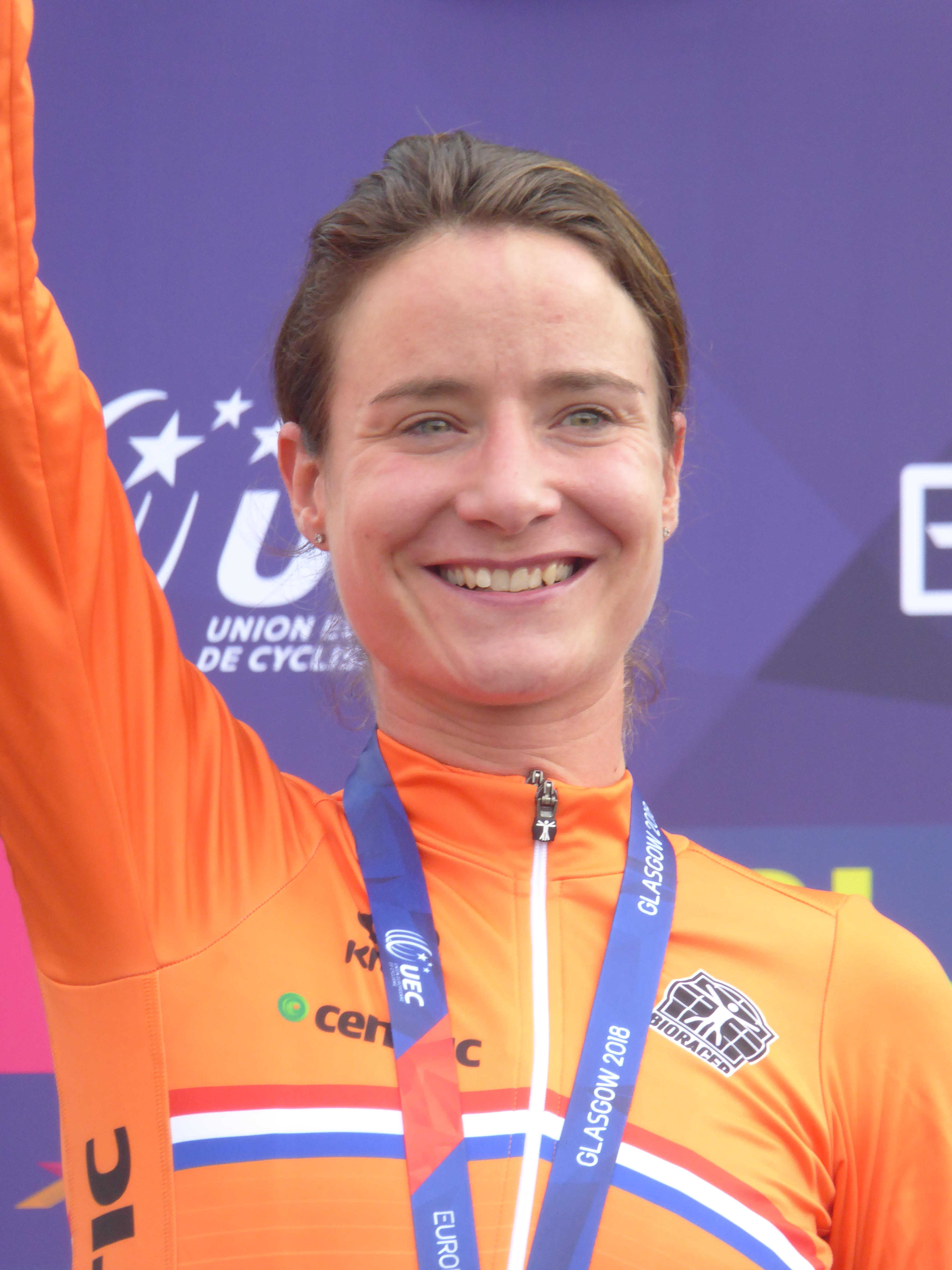 The silver medal for Marianne Vos (Netherlands) in the women's road race at the 2018 UEC European Road Cycling Championships in Glasgow.